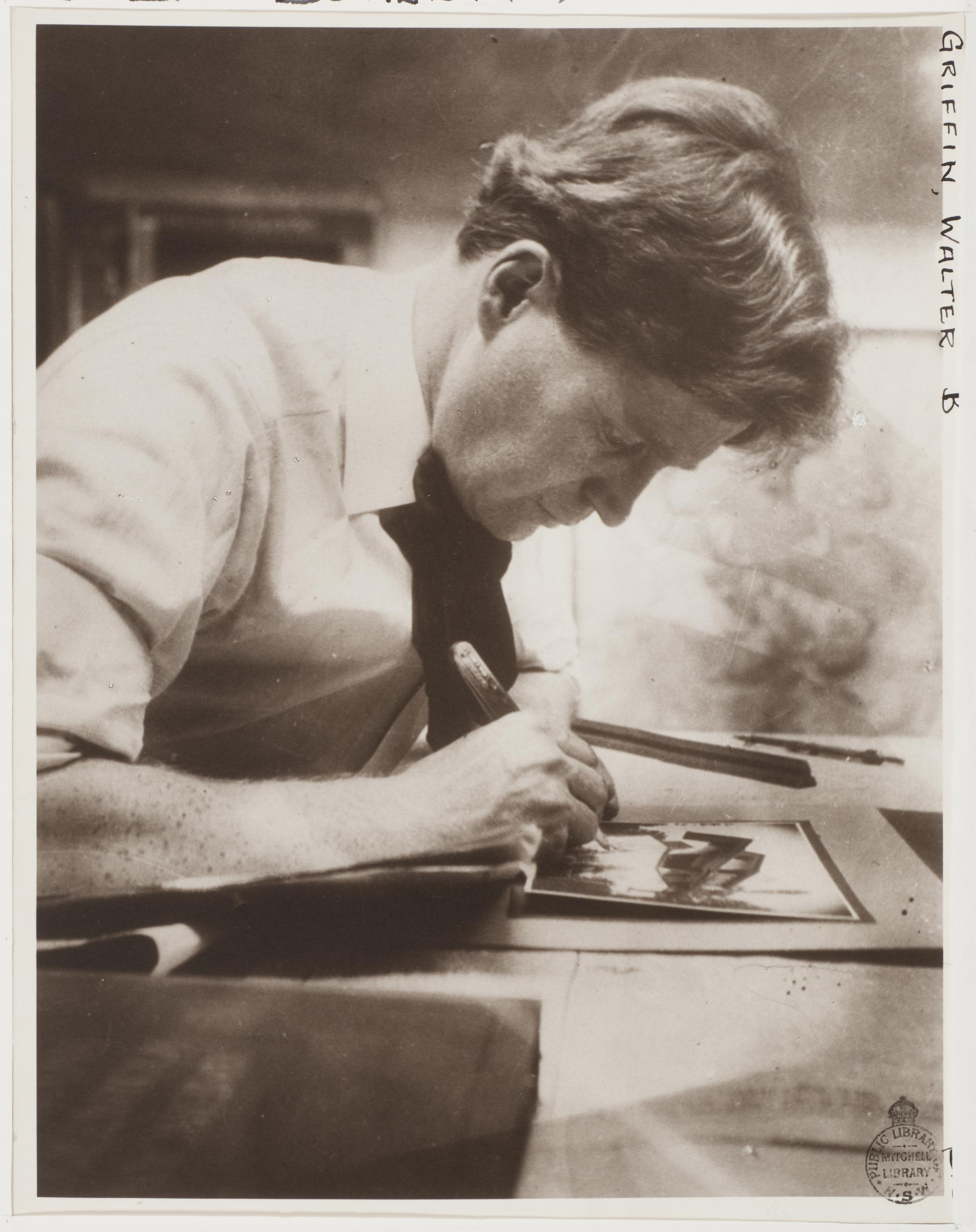 Walter Burley Griffin, at his work desk, 1912, photographer unknown, State Library of New South Wales P1/681